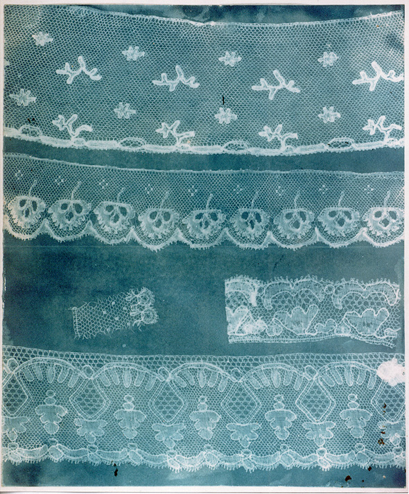 Study of lace, by Sir John Herschel (1791-1871), 1839.